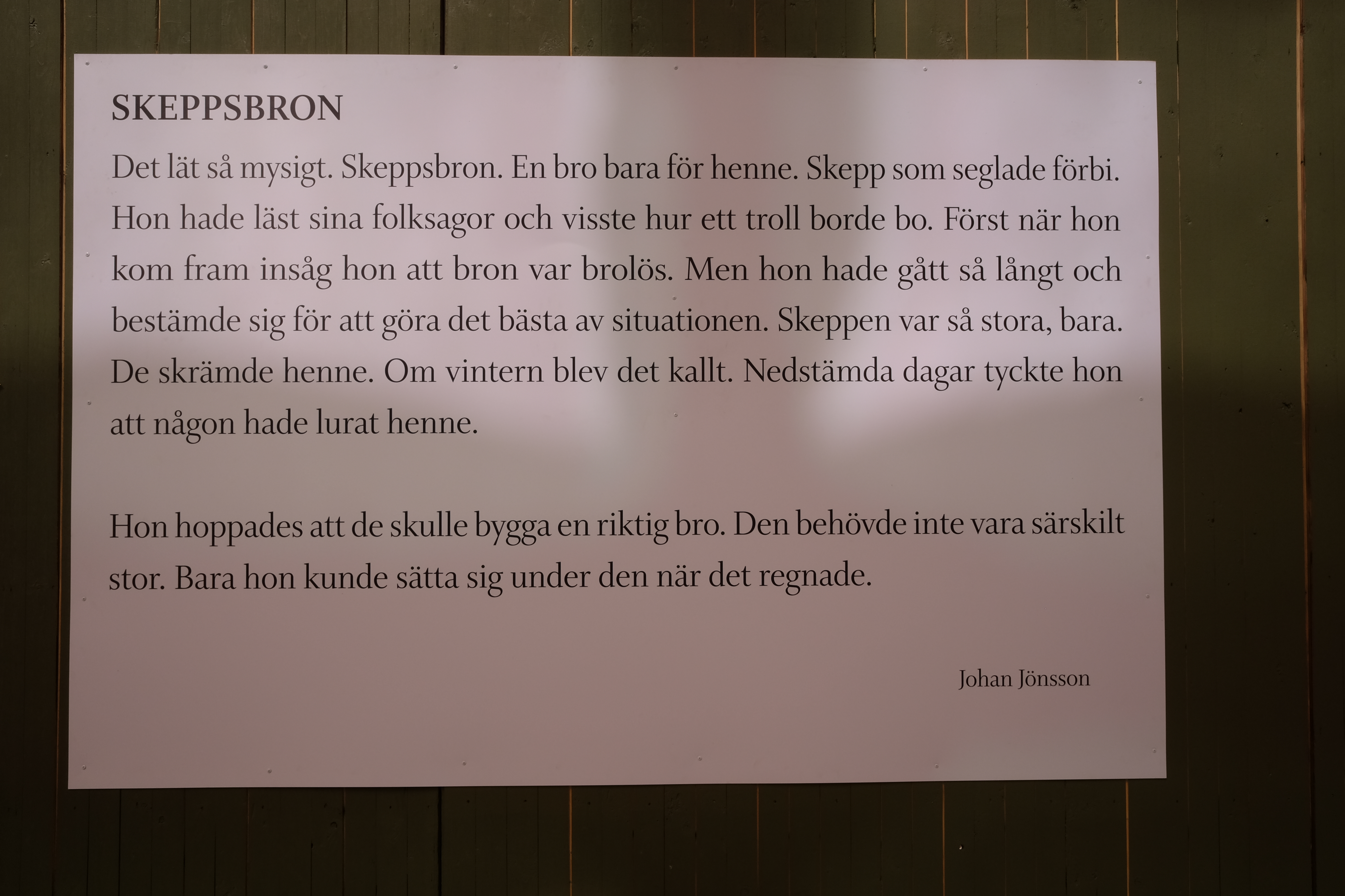 A local mythology for the city of Gothenburg, stories of 100 words on 6 m² signs in different parts of the city centre. Written by Johan Jönsson and commissioned by Trafikverket (the Department of Transportation), as part of the art they're putting on their construction fences for the Västsvenska paketet.